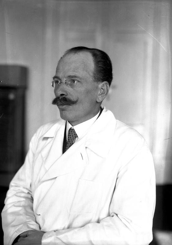 Stefan Kazimierz Pieńkowski